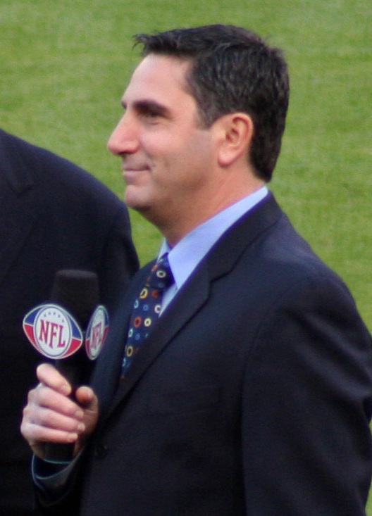 Bob Papa of the NFL Network in San Francisco for Chicago Bears vs San Francisco 49ers, November 2009